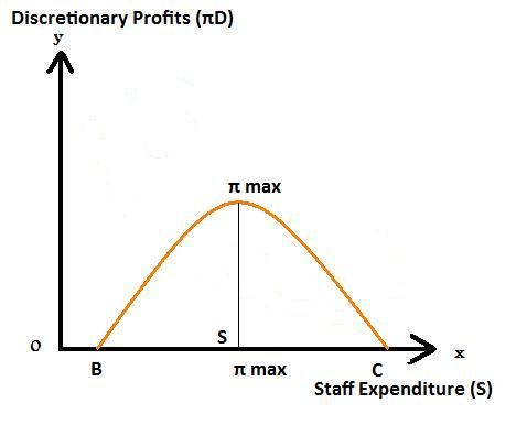 Discretionary profit curve in Williamson's Model of Managerial Discretion